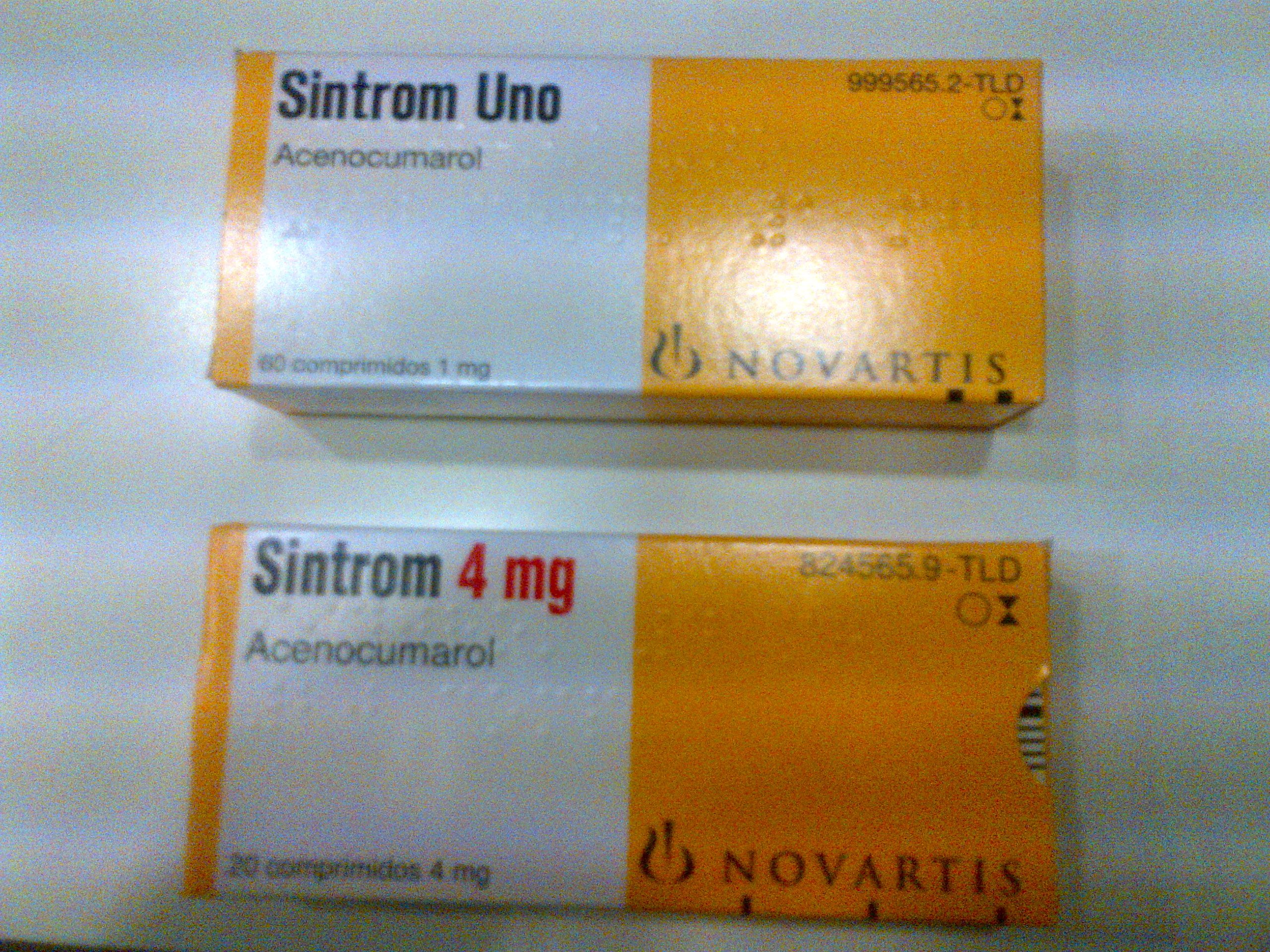 SINTROM.